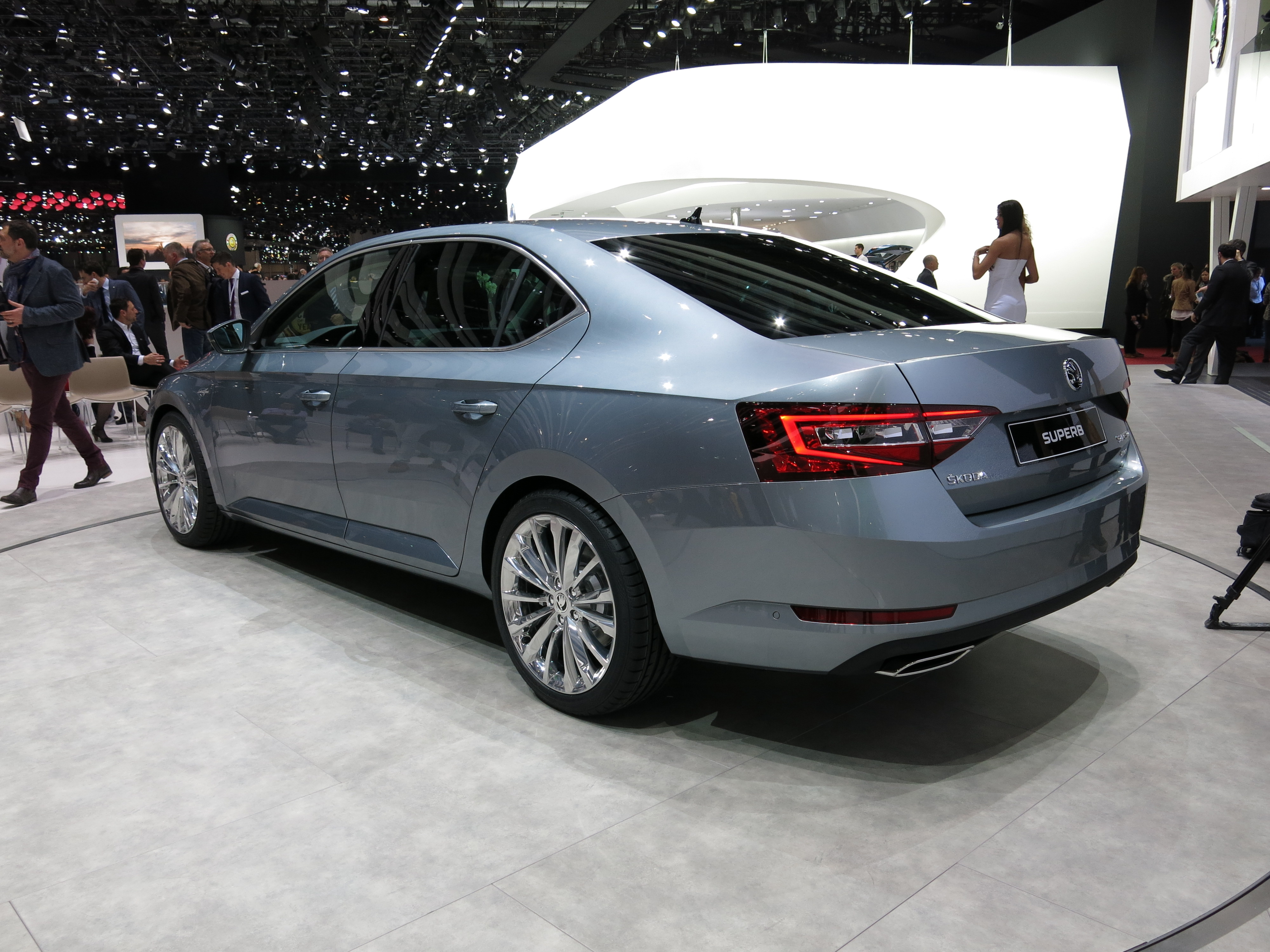 Geneva Motor Show 2015 (photo taken on the first press day)